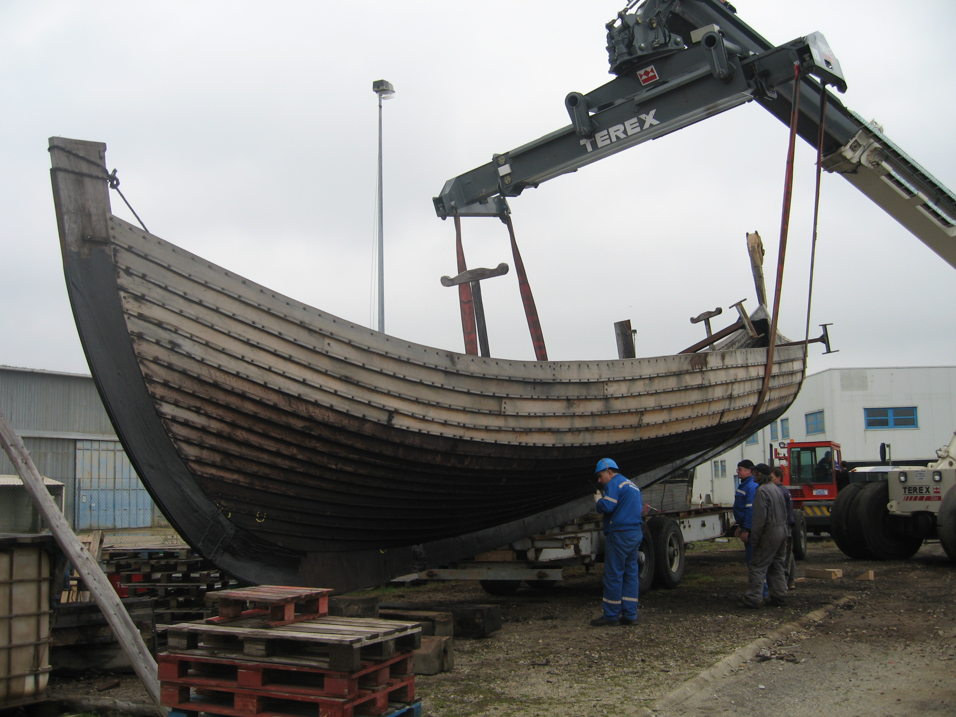 Description =Drakar Dreknor Source =Photo taken by Nathalie Hersent Date =Février 2007 Author =Nathalie Hersent